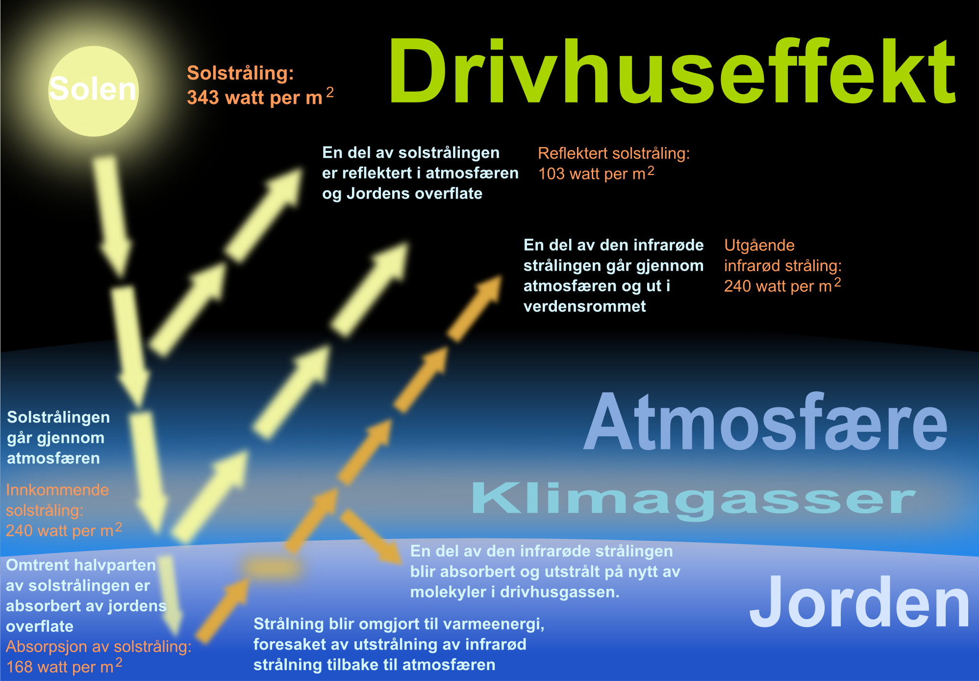 Diagram shows how the greenhouse effect works. Norwegian text. Translation of "The green house effect.svg" on CommonsNorsk bokmål: Diagram som viser hvordan klimagassene virker. Norsk utgave av "The green house effect.svg" på Commons.